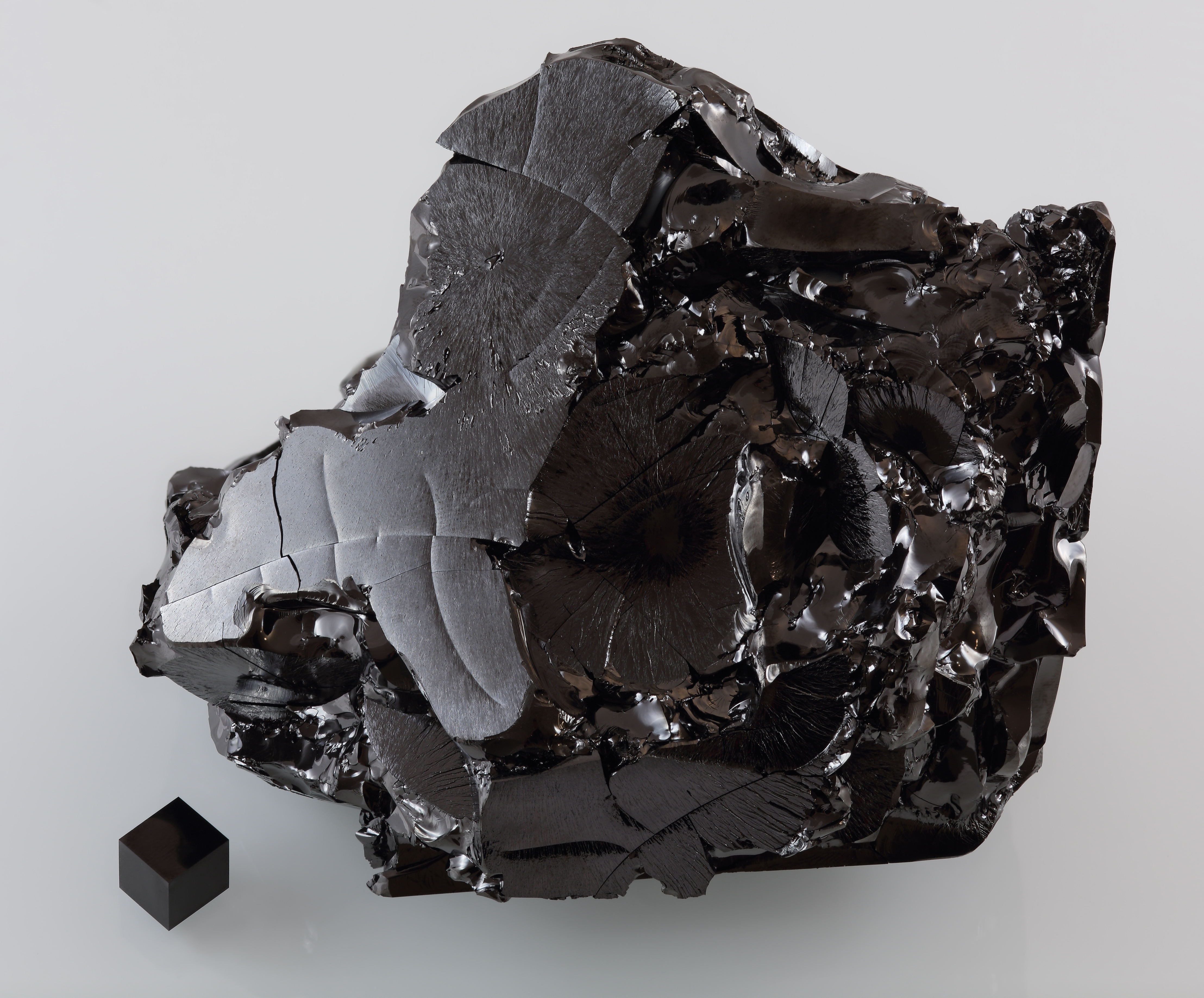 A large sample of glassy carbon with a weight of ca. 570 g, as well as a 1 cm3 graphite cube for comparison.